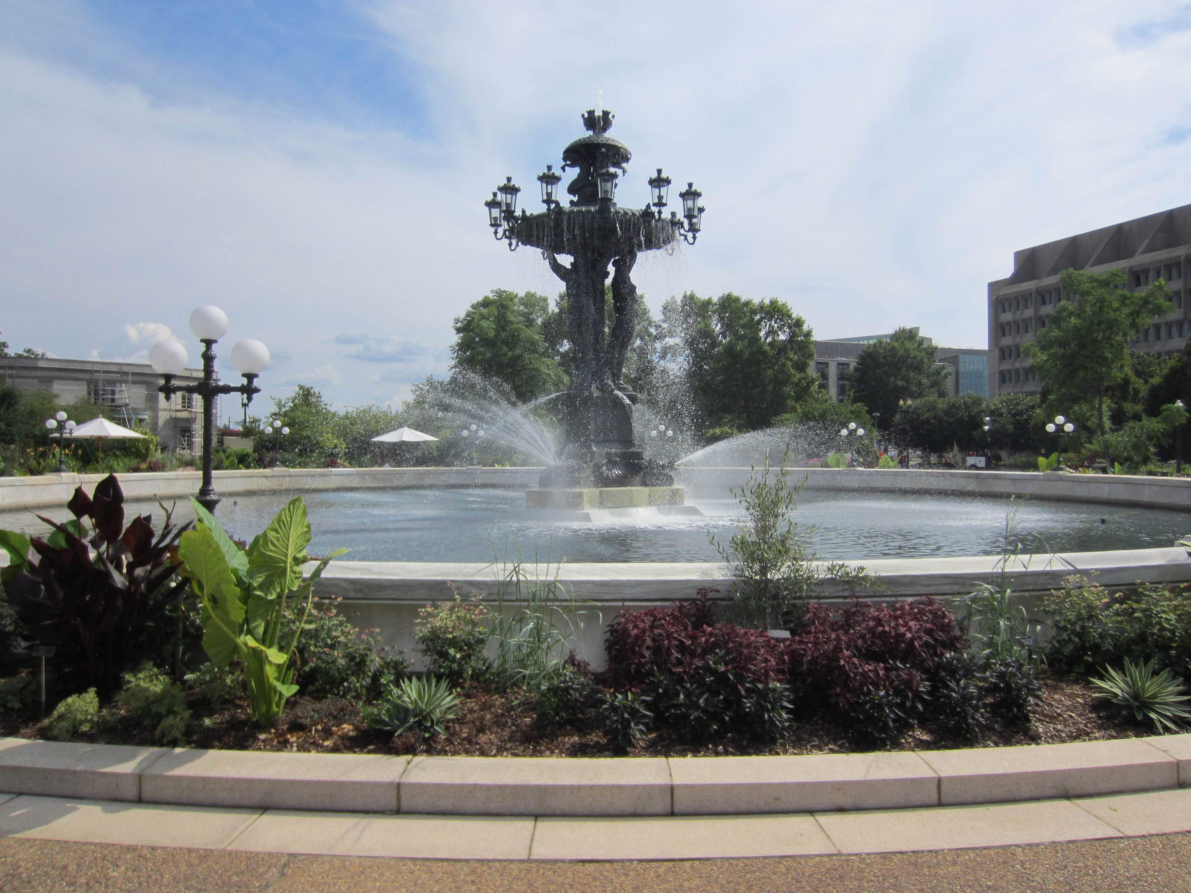 Barthold Fountain in Washington, D.C. in 2012